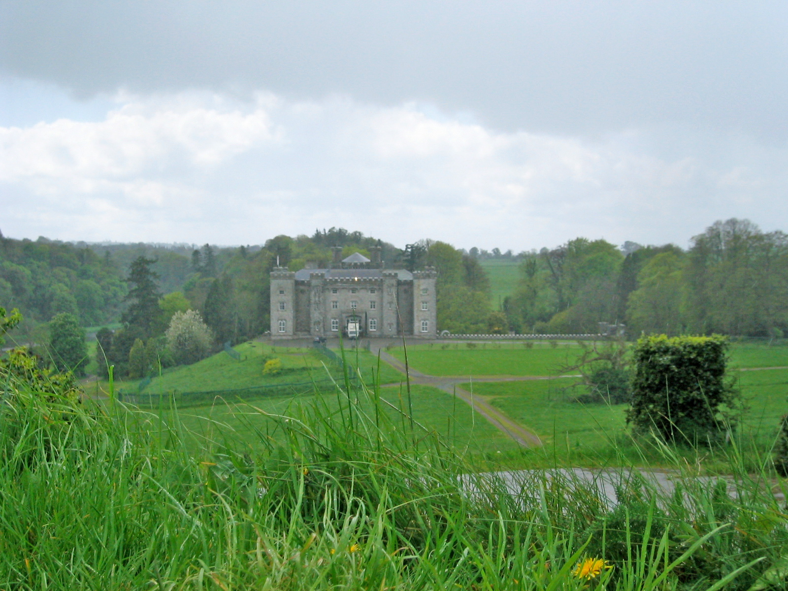 Slane Castle, Co. Meath, Ireland (with delivery truck).